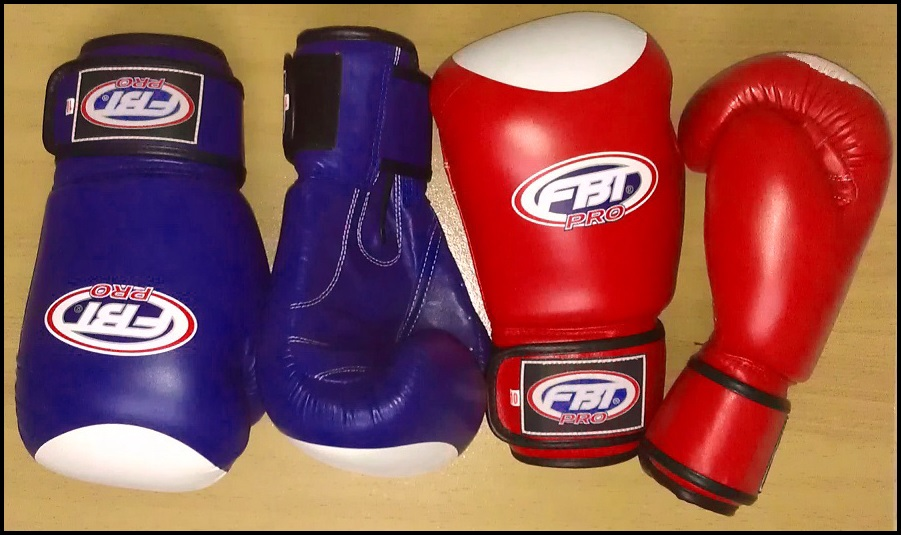 Boxing Gloves